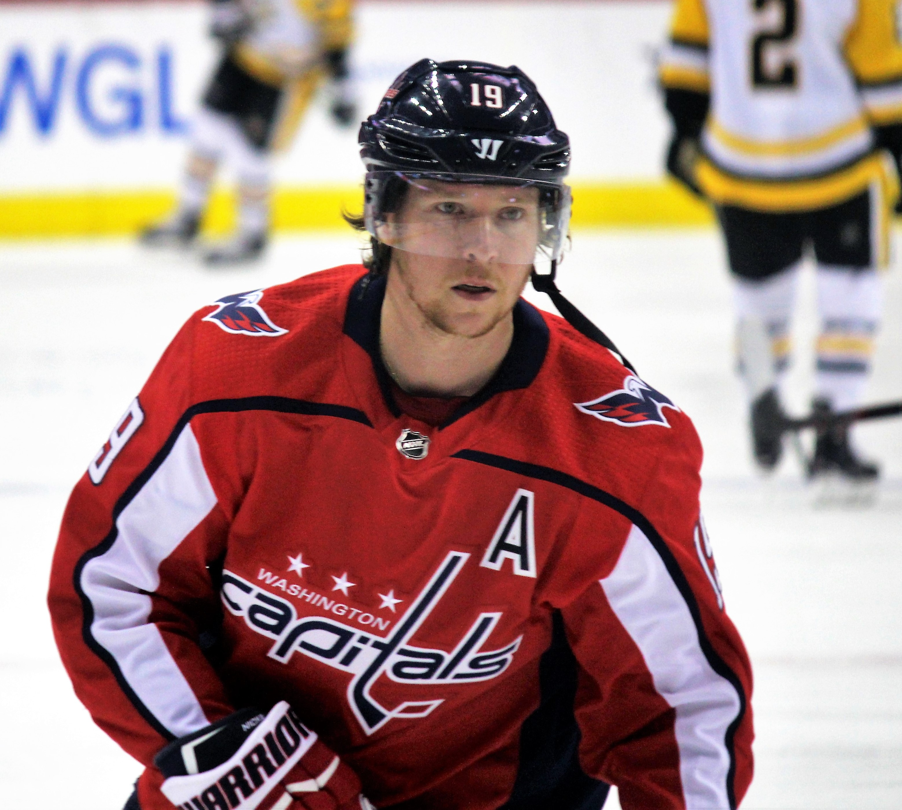 Washington Capitals forward Nicklas Backstrom during game 2 of the Eastern Conference Semifinals series against the Pittsburgh Penguins, April 29, 2018, at Capital One Arena in Washington, D.C.